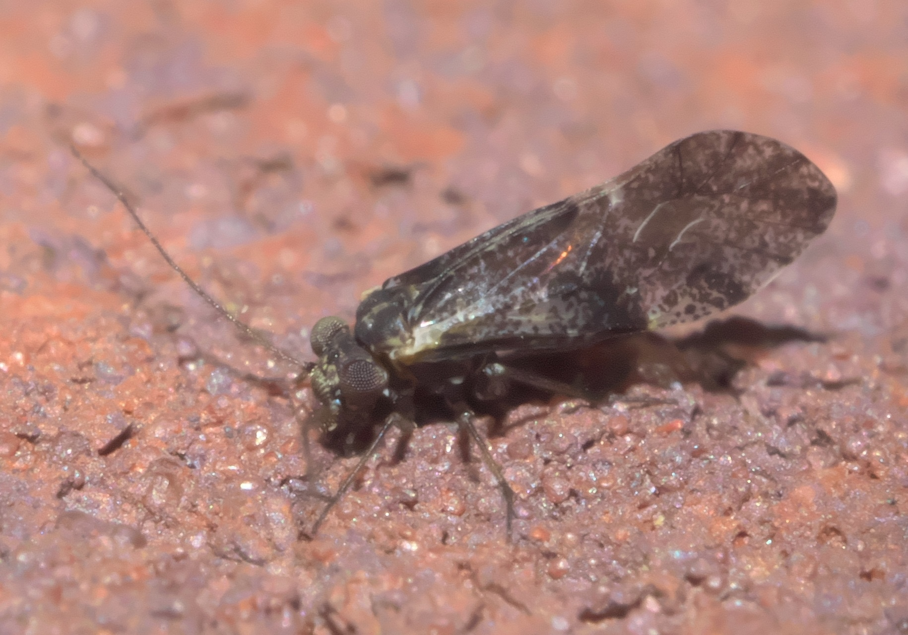 Loensia moesta, Family: Common Barklice, ID Confidence: 98